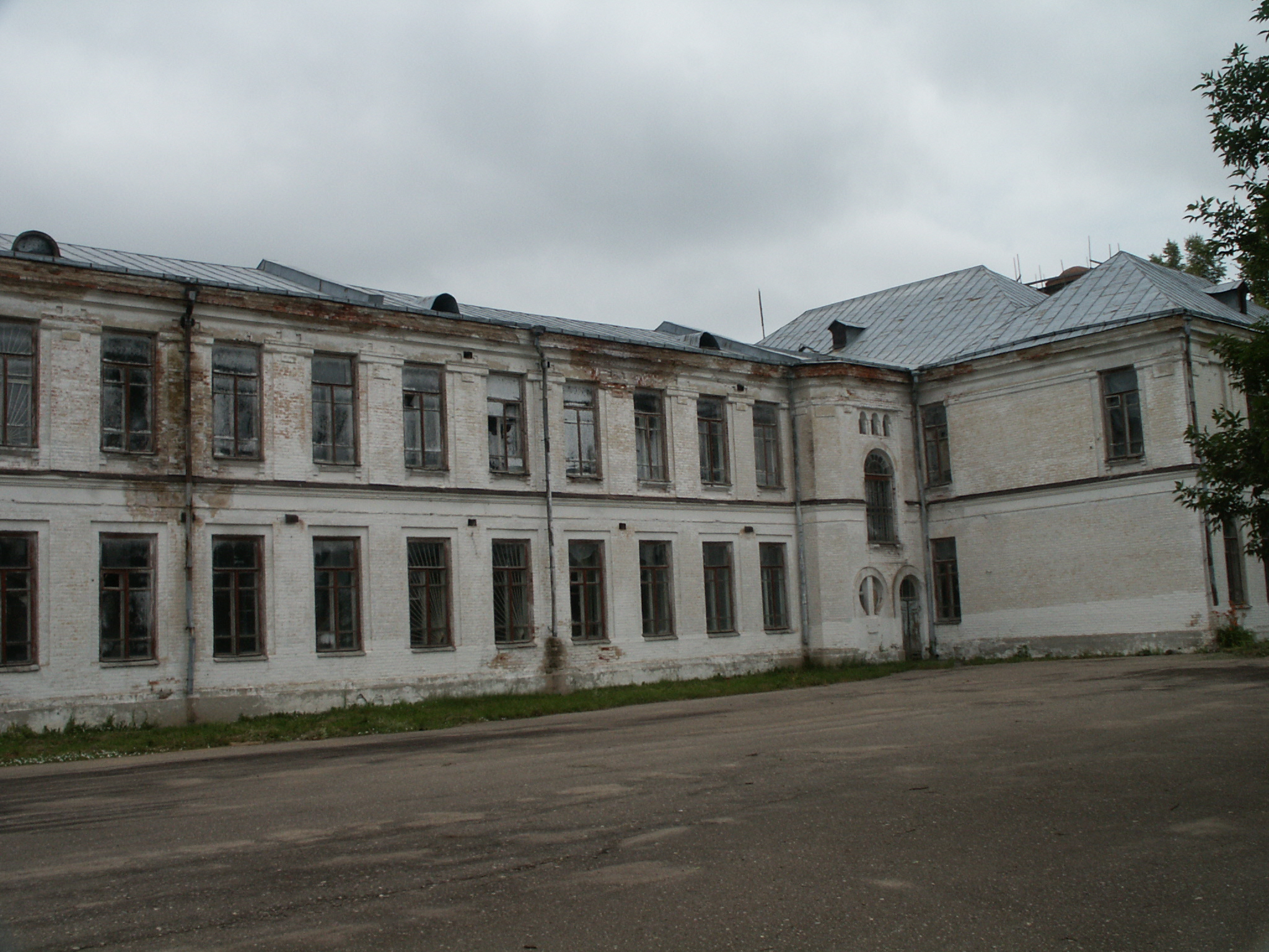 Mstislaw Jesuit Collegium building couryard (XVII century)